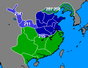 Cao Cao's expansion after the Battle of Guandu.